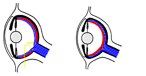 Vertebrate and octopus eyes. Color-coded; Notes etc. to be added via Template: Annotated image. Red: retina, blue: nerves, yellow lines indicate position and area of blind spot.